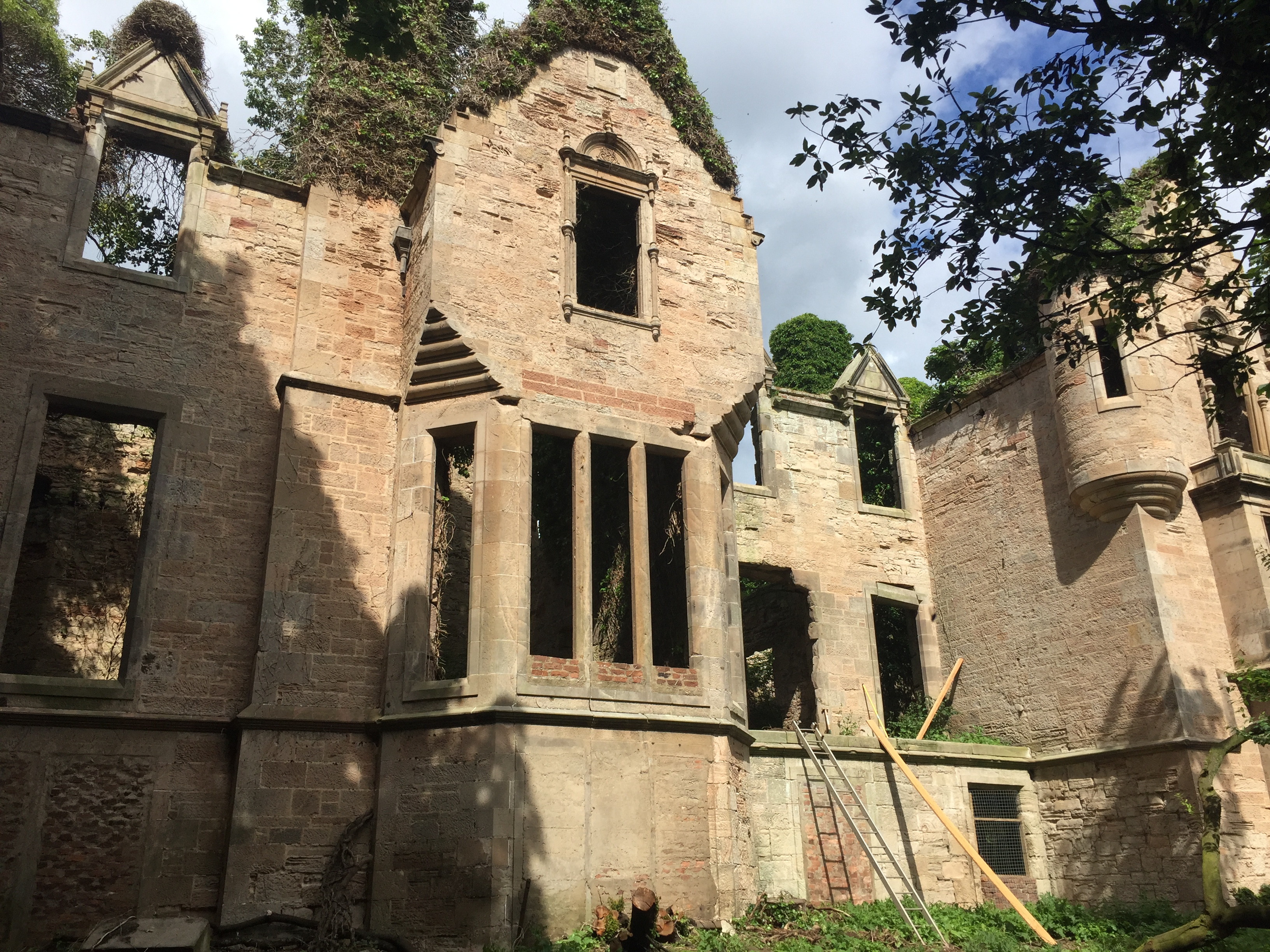 Old Seacliff House Ruins, on the Old estate